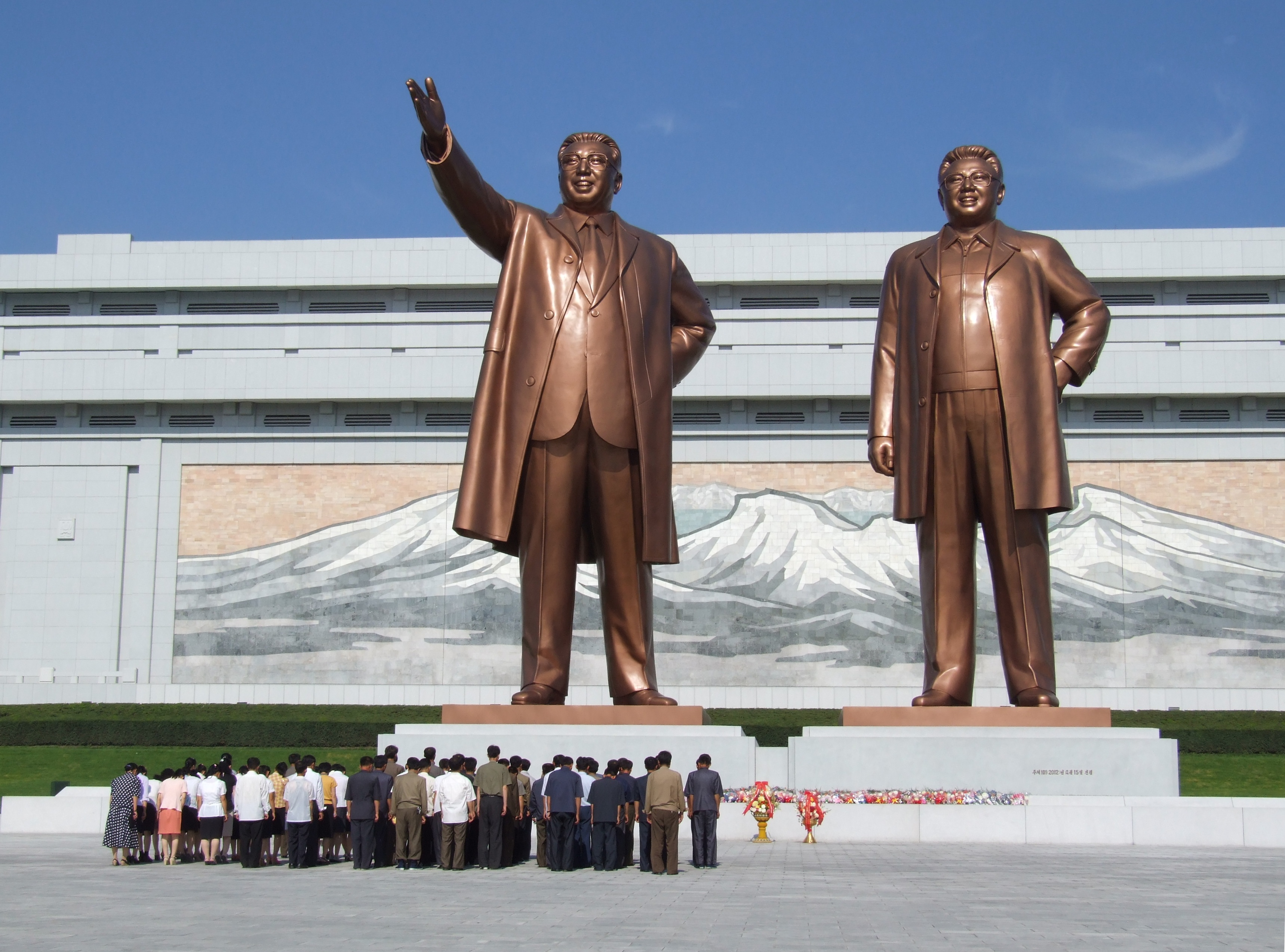 People at Mansudae Grand Monument